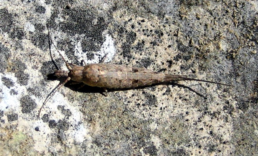 Machilidae; Alfara de Carles (near Tortosa, Tarragona, Spain)